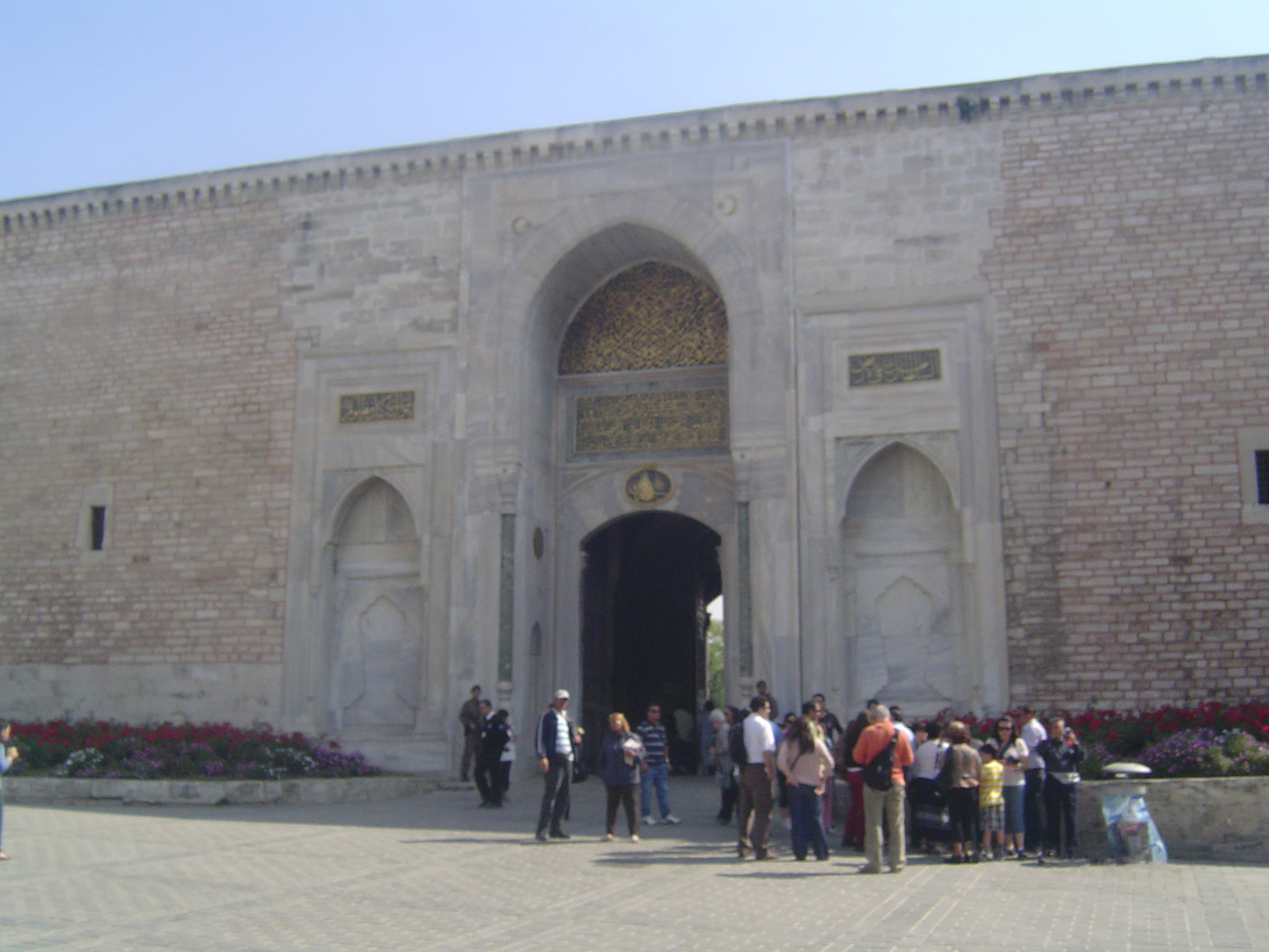 Topkapi Palace Main entrance